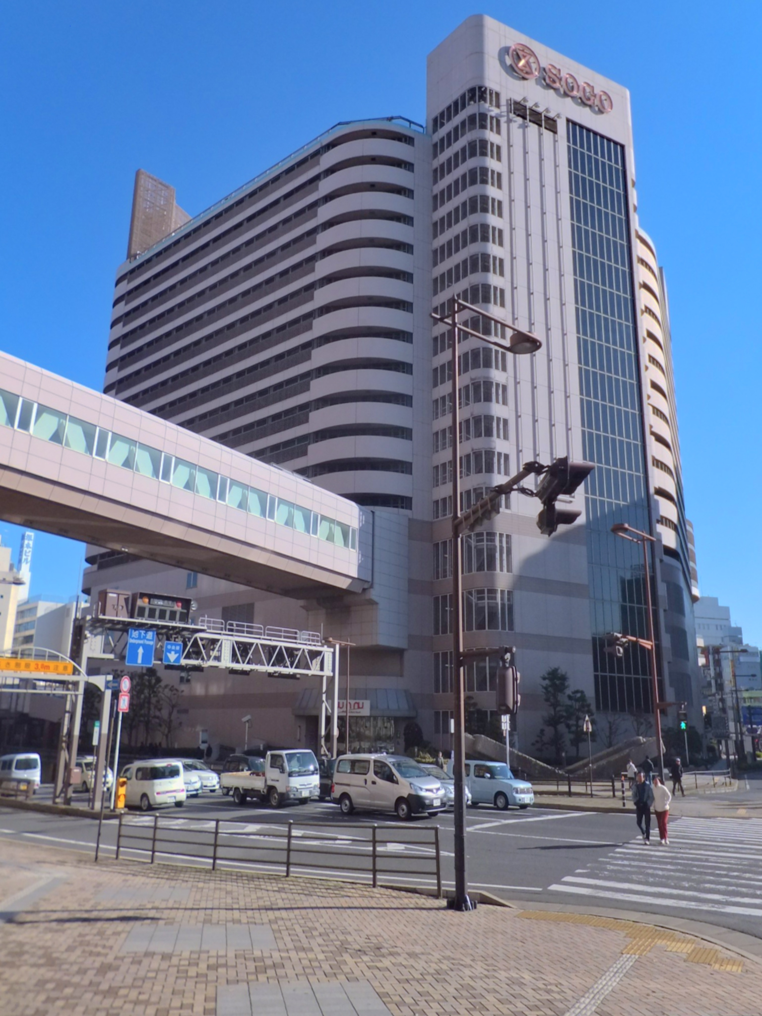 'Aurora Mall JUNNU' is the annex of Sogō Department Store Chiba shop.